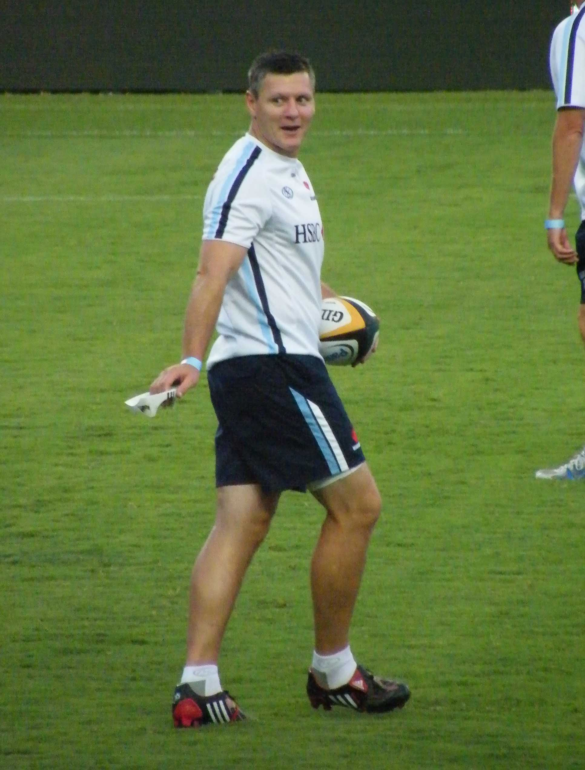 NSW Waratahs kicking coach Matthew Burke flirts during a game of drop the kicking tee.